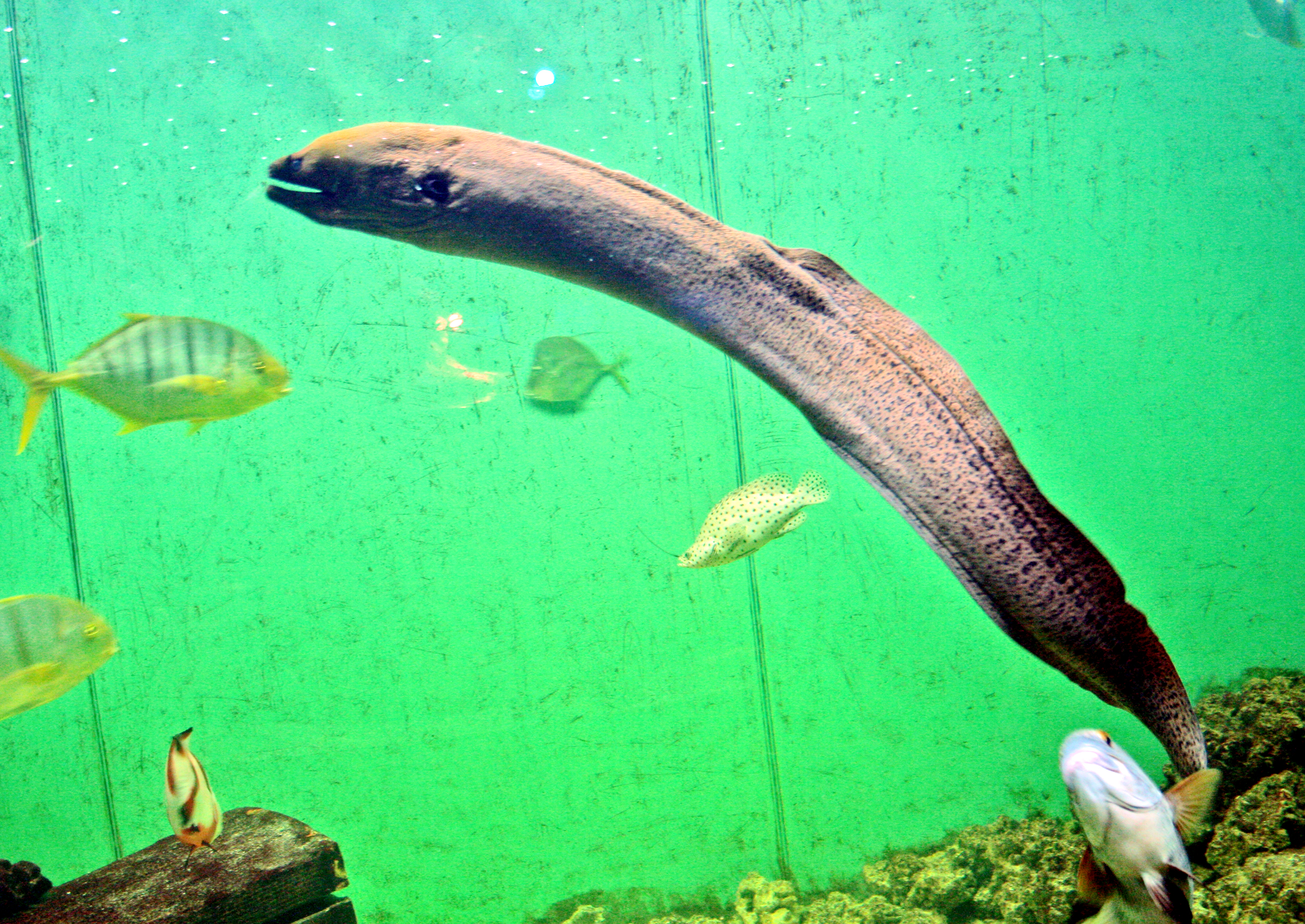 Fish Giant moray Gymnothorax javanicus in Prague sea aquarium, Czech Republic, Couple Gnathanodon speciosus an the side